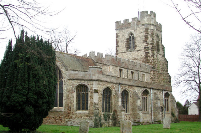 All Saints, Cople, Beds